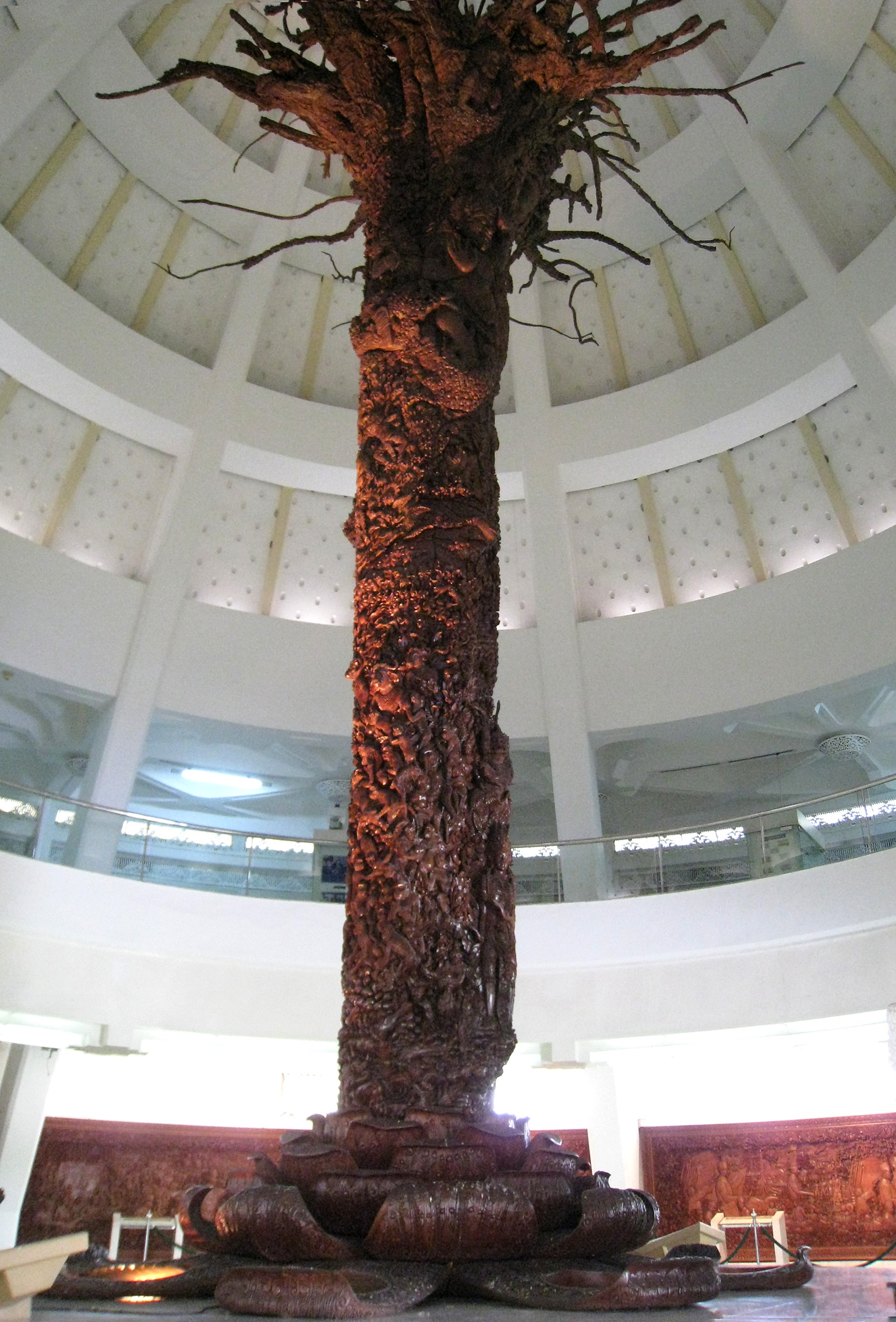 A Javanese whole tree wooden carving depicting Rama Tambak, the story taken from Ramayana epic. Purna Bhakti Pertiwi Museum, Taman Mini Indonesia Indah, East Jakarta.